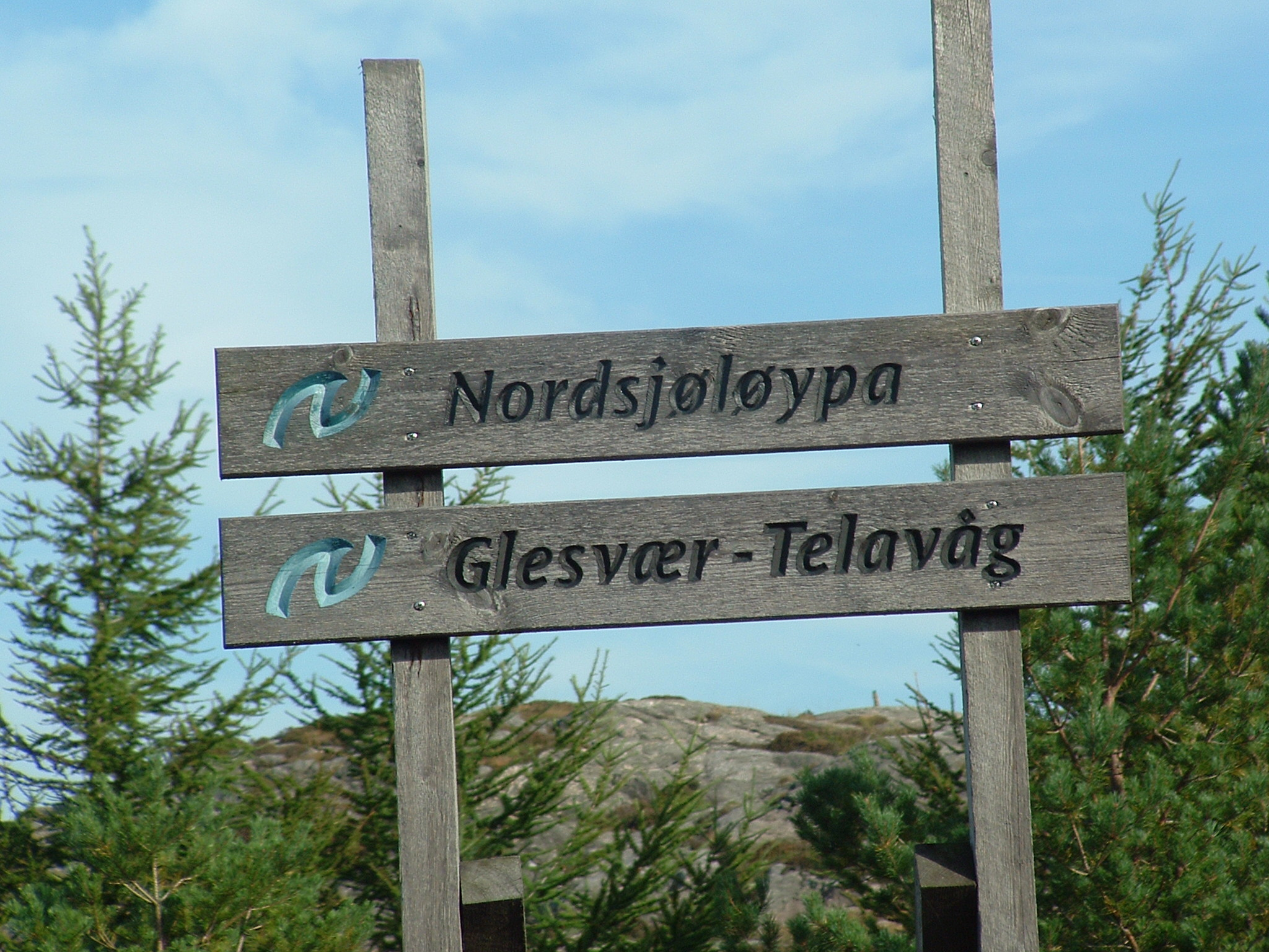 The North Sea Trail-marker from Sotra, Norway